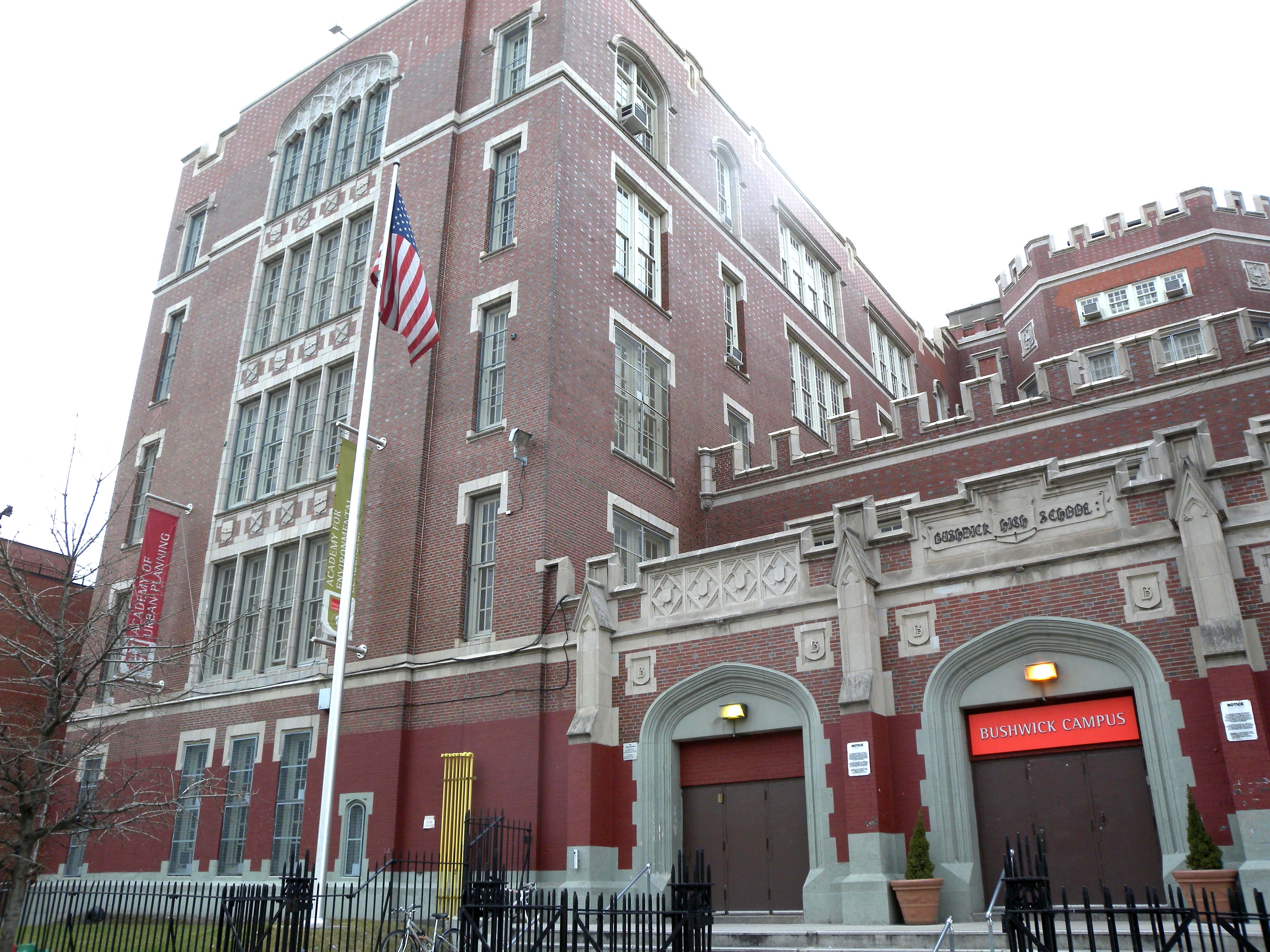 Looking south cross Irving Avenue at Bushwick High School Academy of Urban Planning, 400 Irving Avenue on a cloudy afternoon. ZIP 11237.